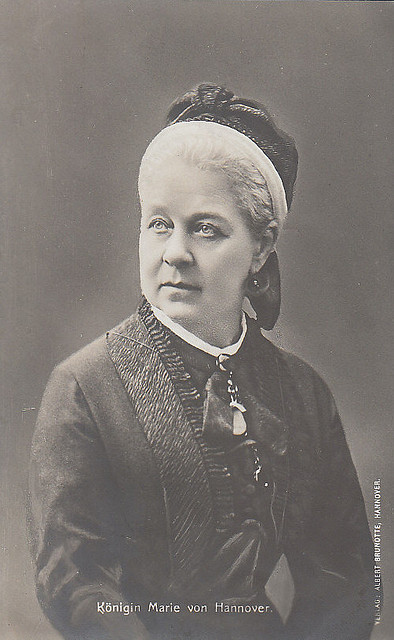 Marie of Saxe-Altenburg, queen of Hanover